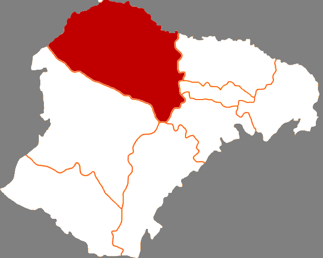 Locator map of Hanggin Banner in Ordos City, Inner Mongolia, China